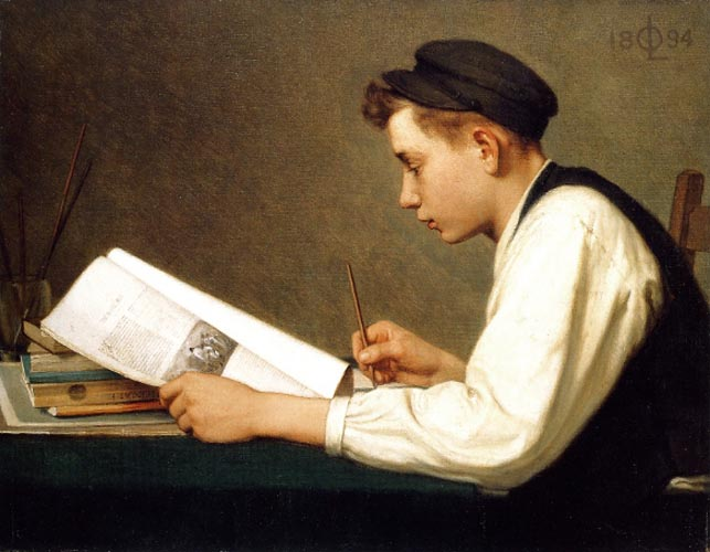 The young student